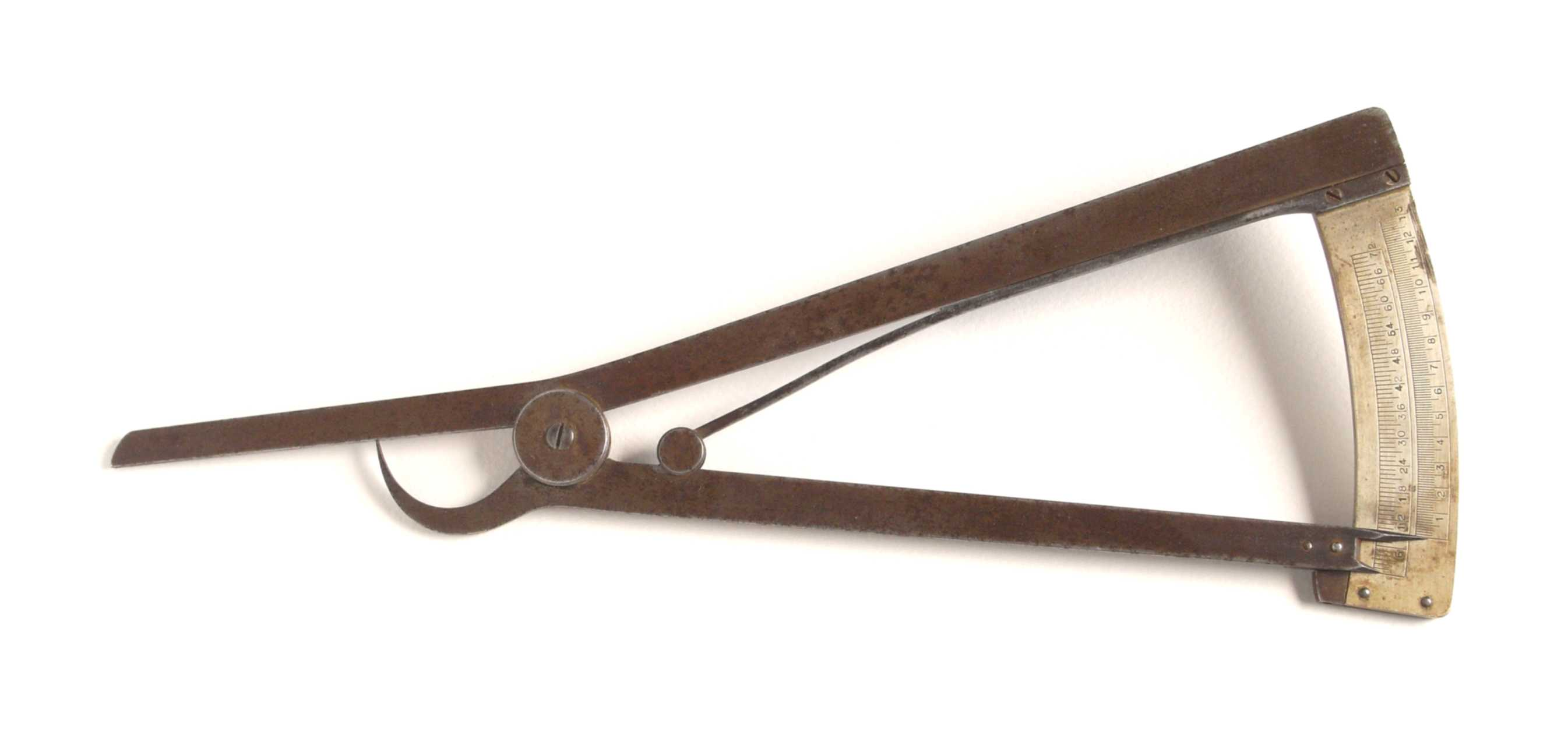 dixieme gauge (20th century) with scale in millimetre and line